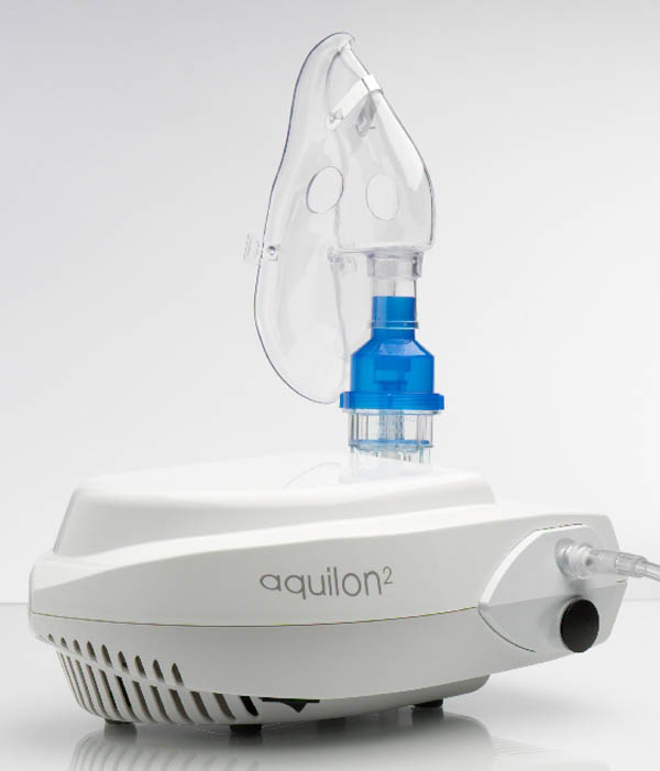 Aquineb nebulizer with Aquilon² compressor, showing adult facemask option and tubing connection point alongside lifetime inlet filter